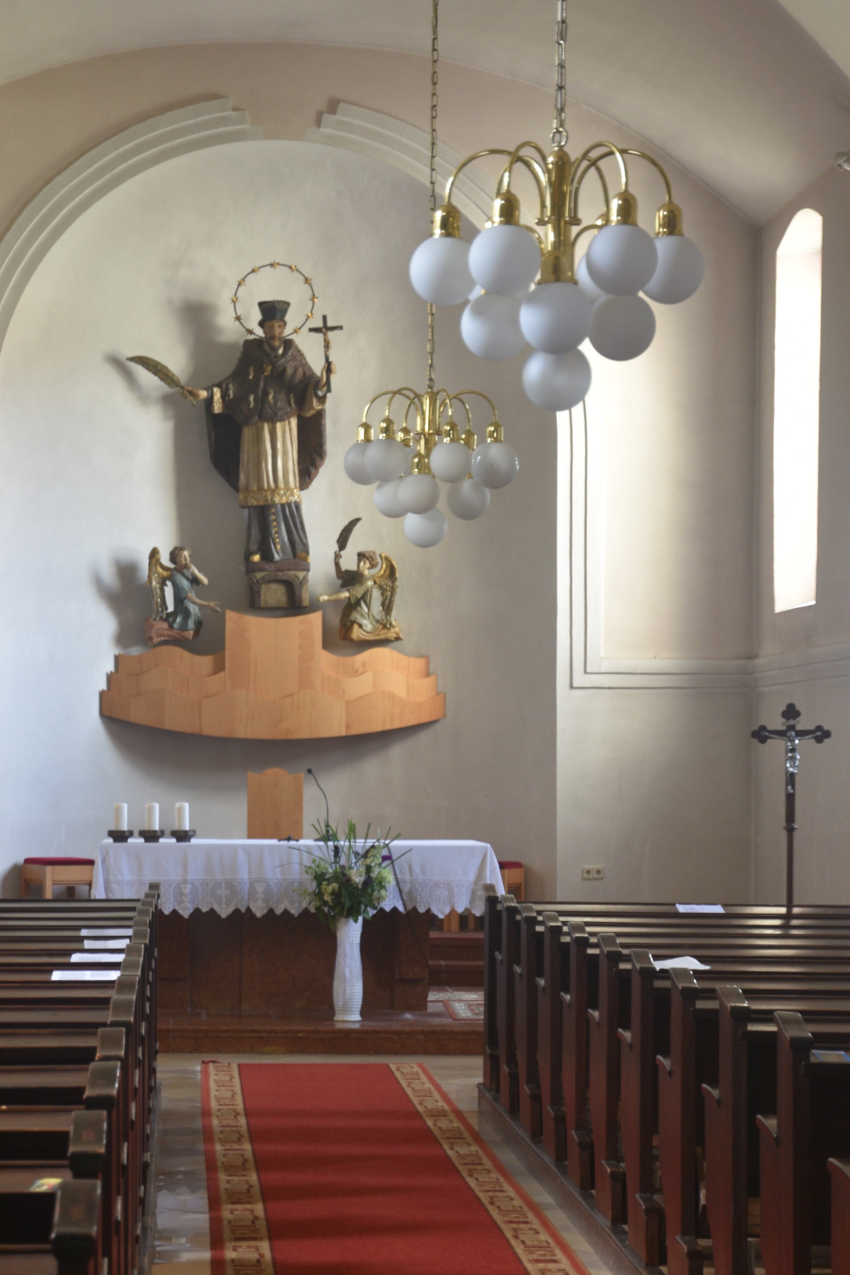 Saint John of Nepomuk Church Weiden bei Rechnitz Interior